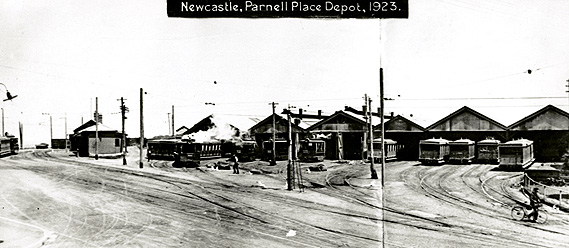 Parnell Place Tram Depot, Newcastle, Australia